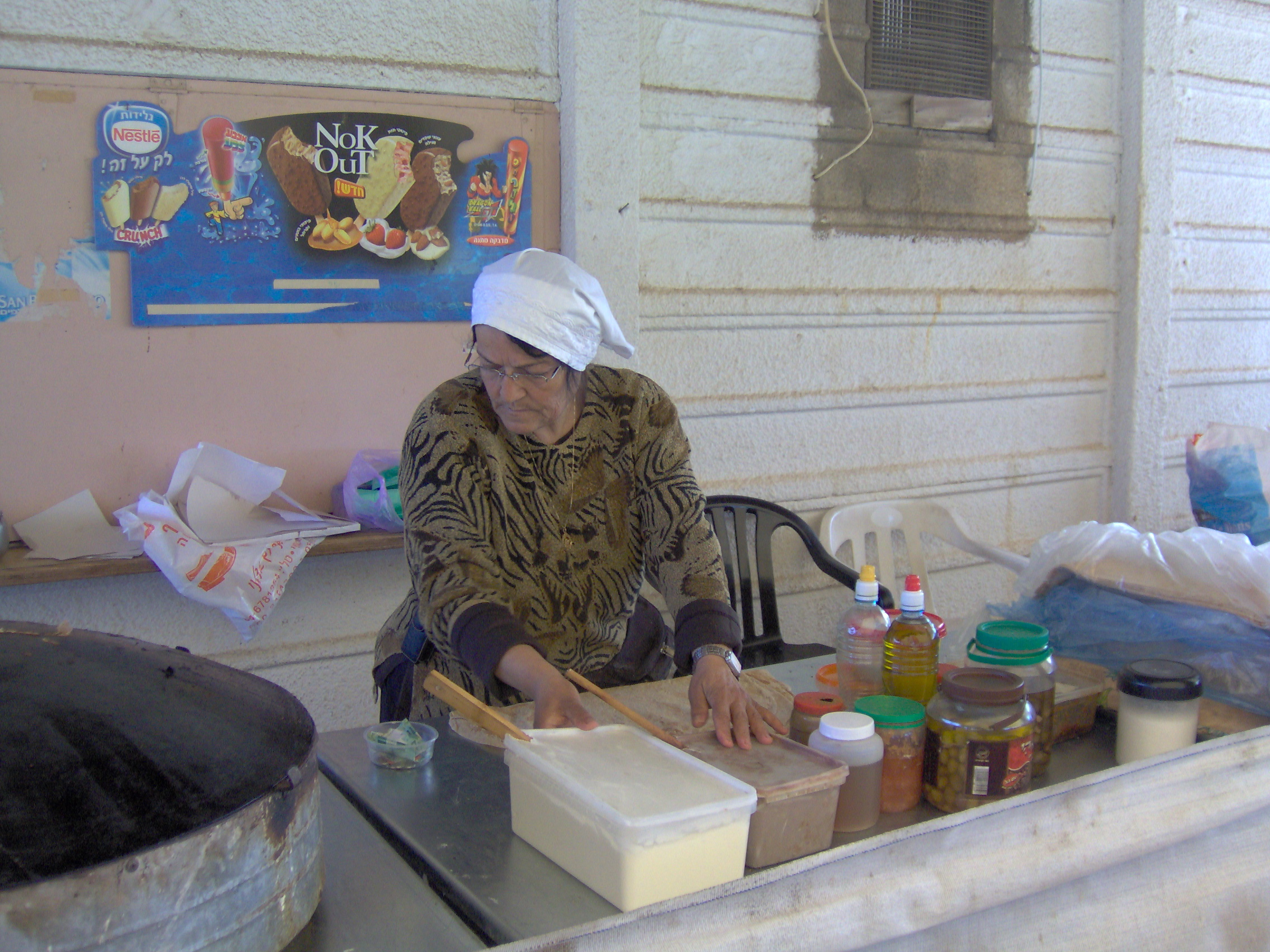 A Druze woman baking traditional food in the Golan Heights.